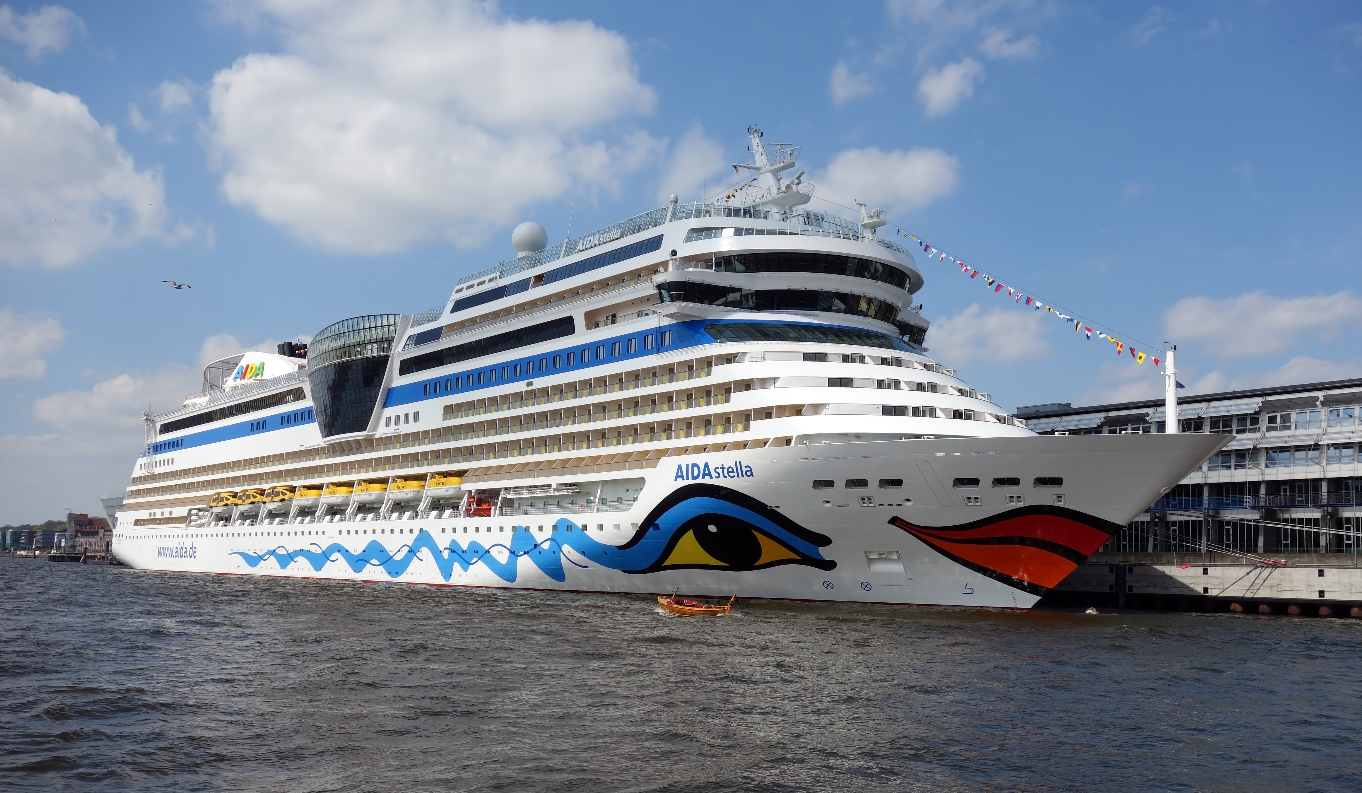 The AIDAstella in port of Hamburg. The AIDAstella was launched on 25th of January 2013. It il 253,33 m long and has space for 2.500 passengers. The AIDAstella is the newest of ten cruise ships of the cruise line company AIDA cruises.